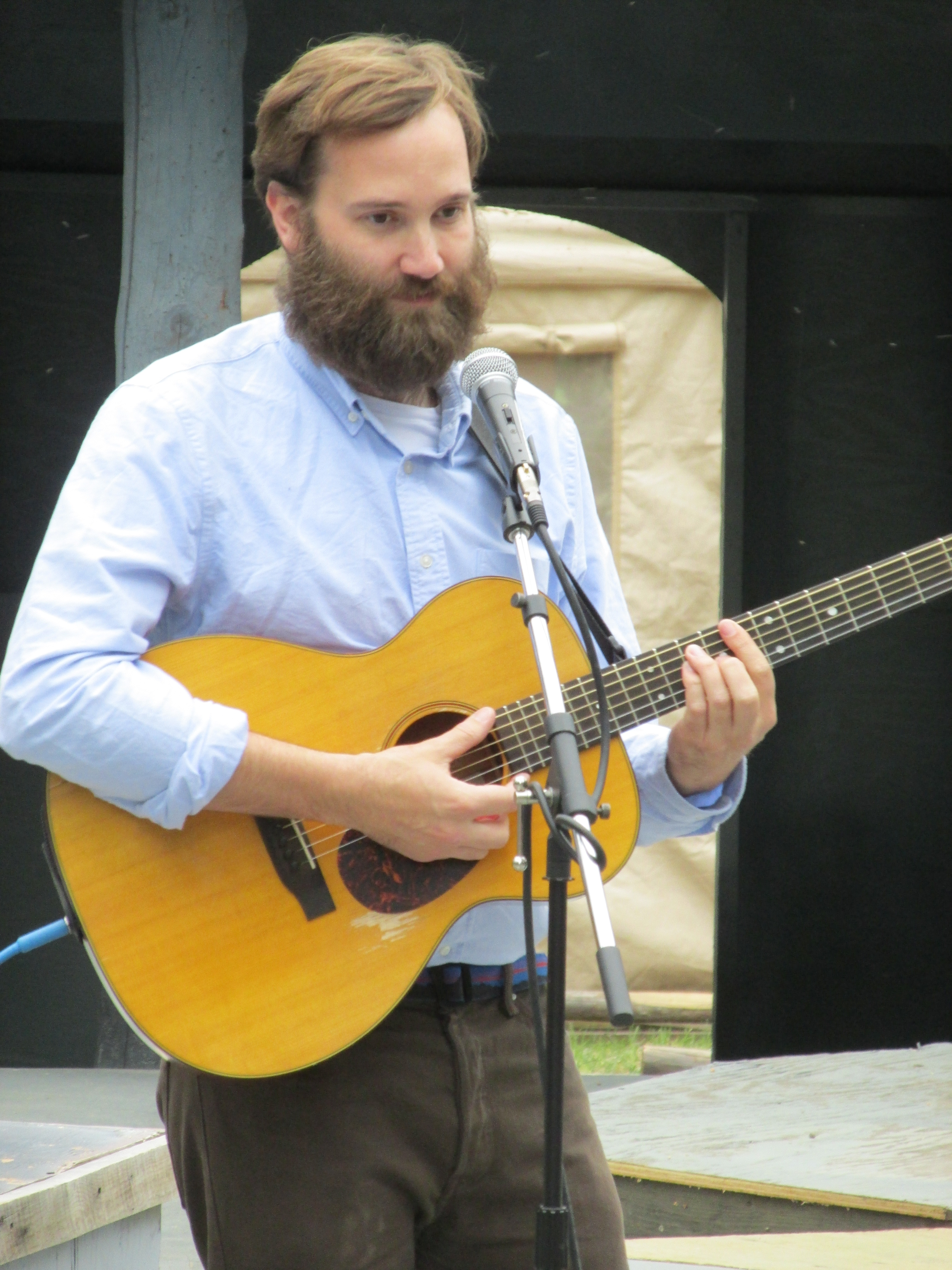 Paul Baribeau performing at the University of Alaska Fairbanks, opening for Kimya Dawson.